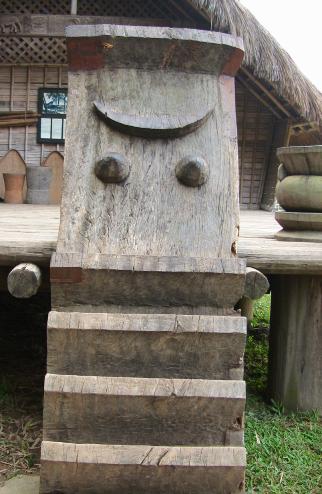 A stairs to long house.